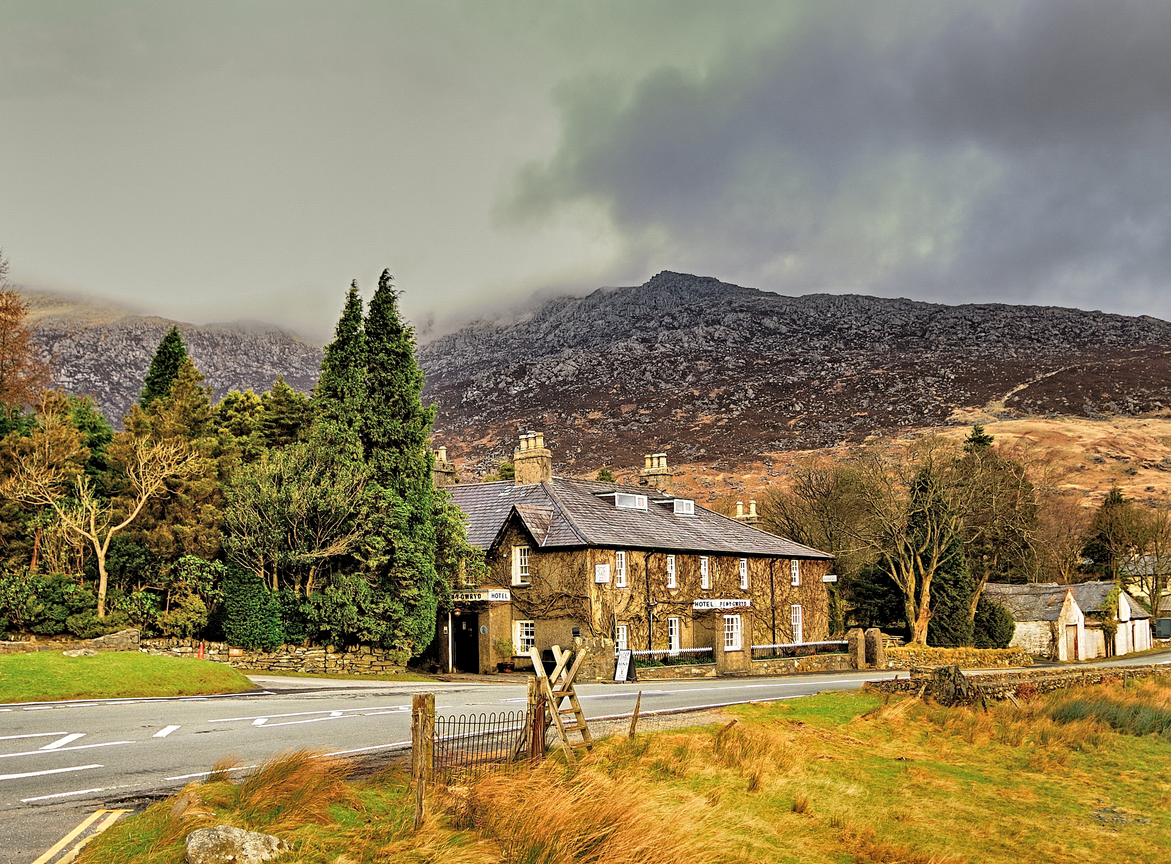 North Wales. Pen-Y-Gwryd Hotel on the Capel Curig to Beddgelert road (A 498) near the junction of the Pen Y Pass road (A 4086). It was at this hotel the 1951 British expedition stayed during their training in the north Welsh mountains before their famous first ever successful assault on Everest